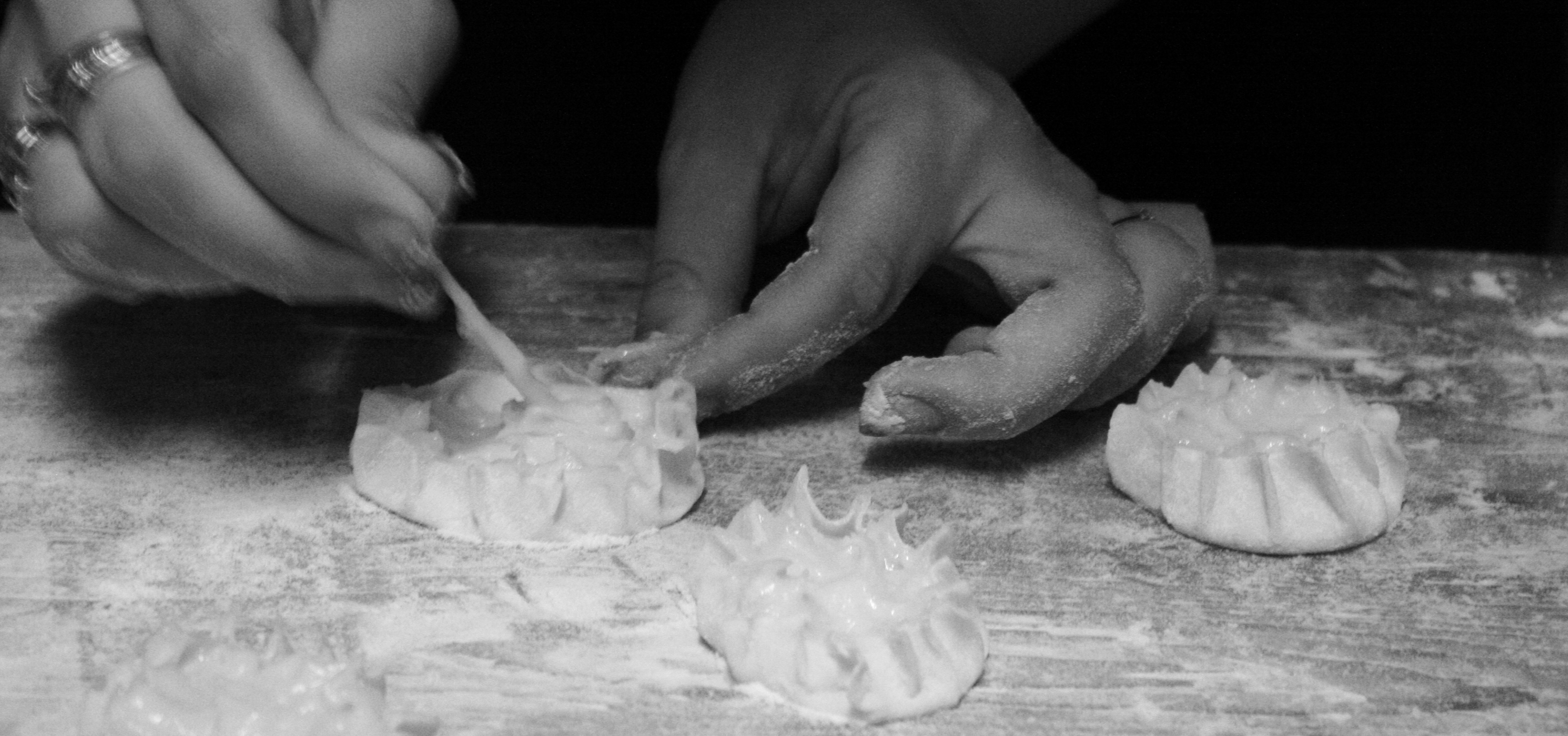 Melitinia